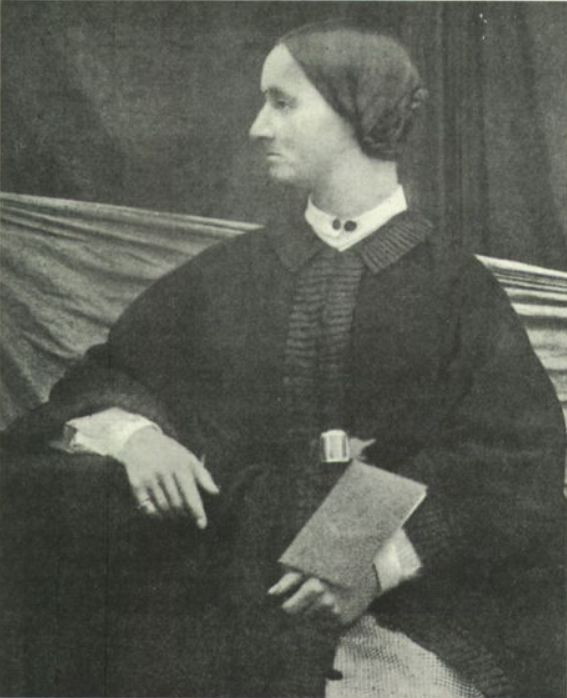 John Lloyd/Library of Congress. Mary Charlotte Lloyd. Published by Cobbe in Abolitionist on December 15, 1900, 1864 or 1865